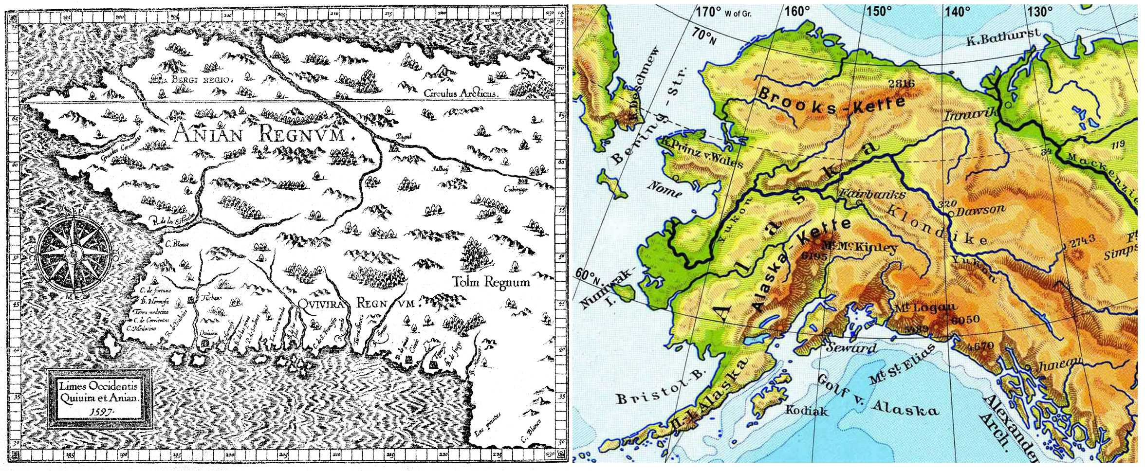 Left a map of Alaska over a century before the official discovery. From the Wytfliet atlas of 1597. Right the same area on a modern map.